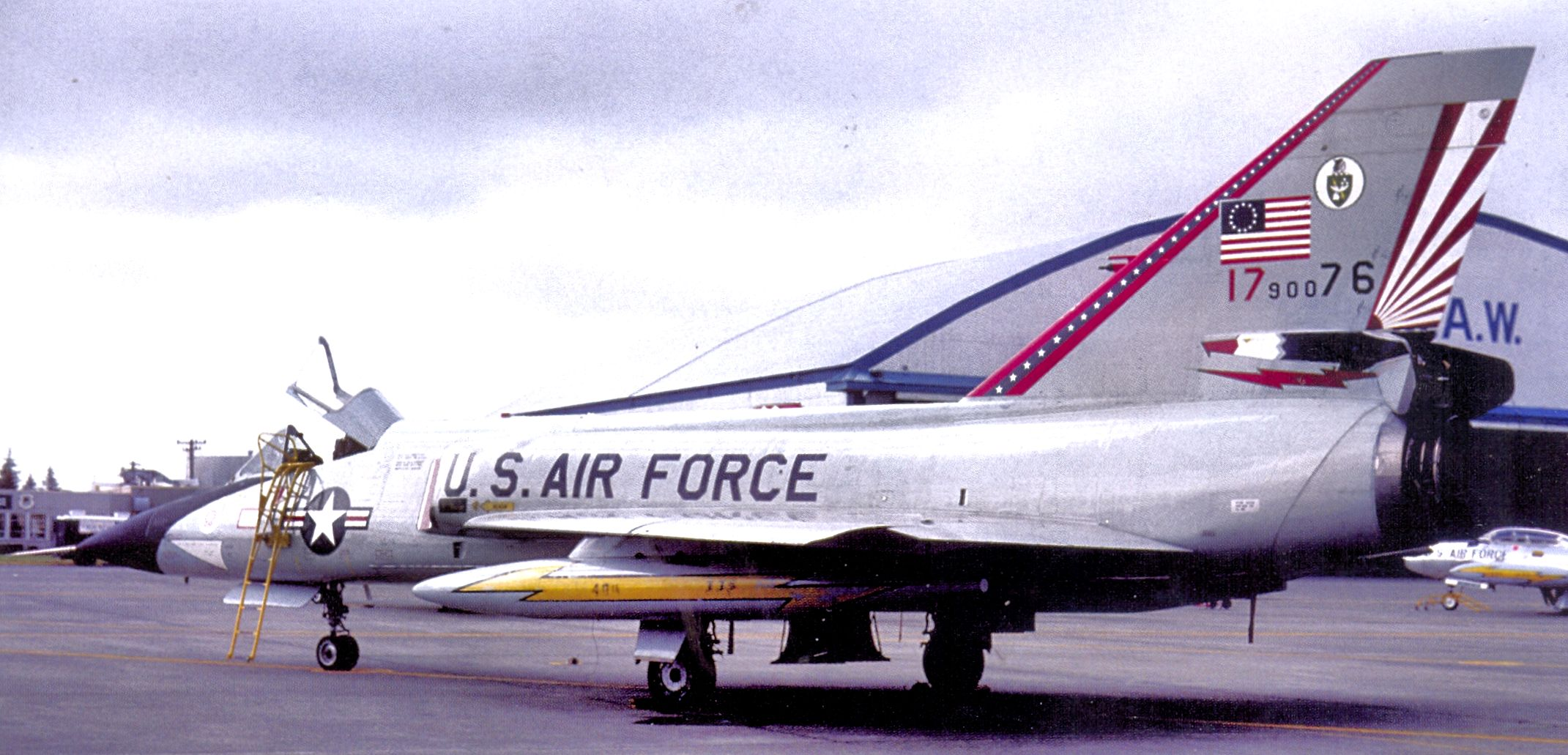 49th Fighter-Interceptor Squadron Convair F-106A-120-CO Delta Dart 59-0076 1976 in Bicentennial markings. Retired to MASDC as FN0009 May 25, 1983. To QF-106 (AD169). Command destroyed after loss of control Nov 2, 1993